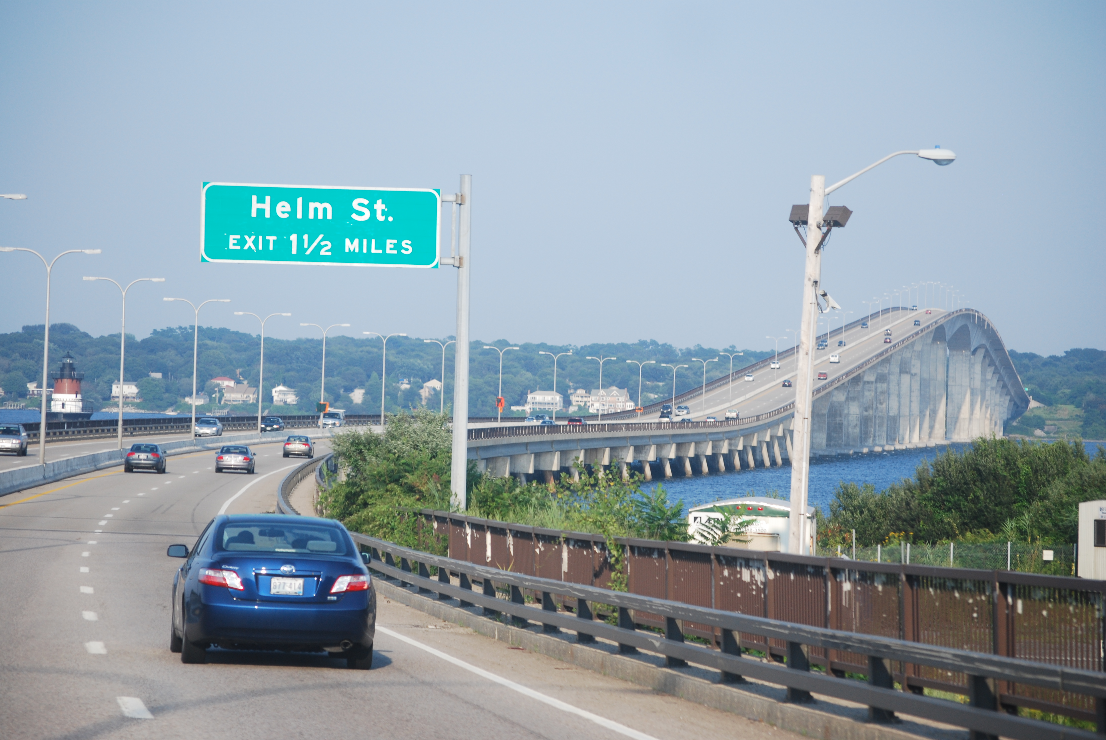 Approaching the Jamestown Verrazzano Bridge in North Kingston, RI